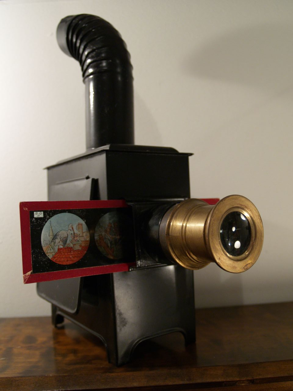 This is my magic lantern. It once belonged to my great grandfather.